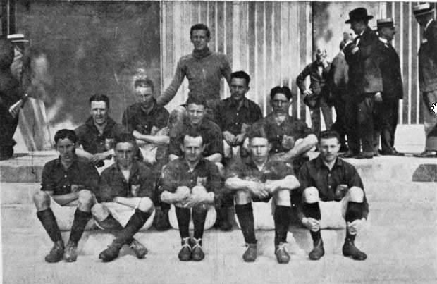 The Netherlands national football team that competed at the Summer Olympics held in Paris, France. The Dutch team against Romania. Front row, from left to right: Albert Snouck Hurgronje, Ber Groosjohan, Kees Pijl, Gerrit Visser and Jan de Natris. Middle row: André le Fèvre, Harry Dénis, Evert van Linge, Hans Tetzner and Peer Krom. Rear row: Gejus van der Meulen.